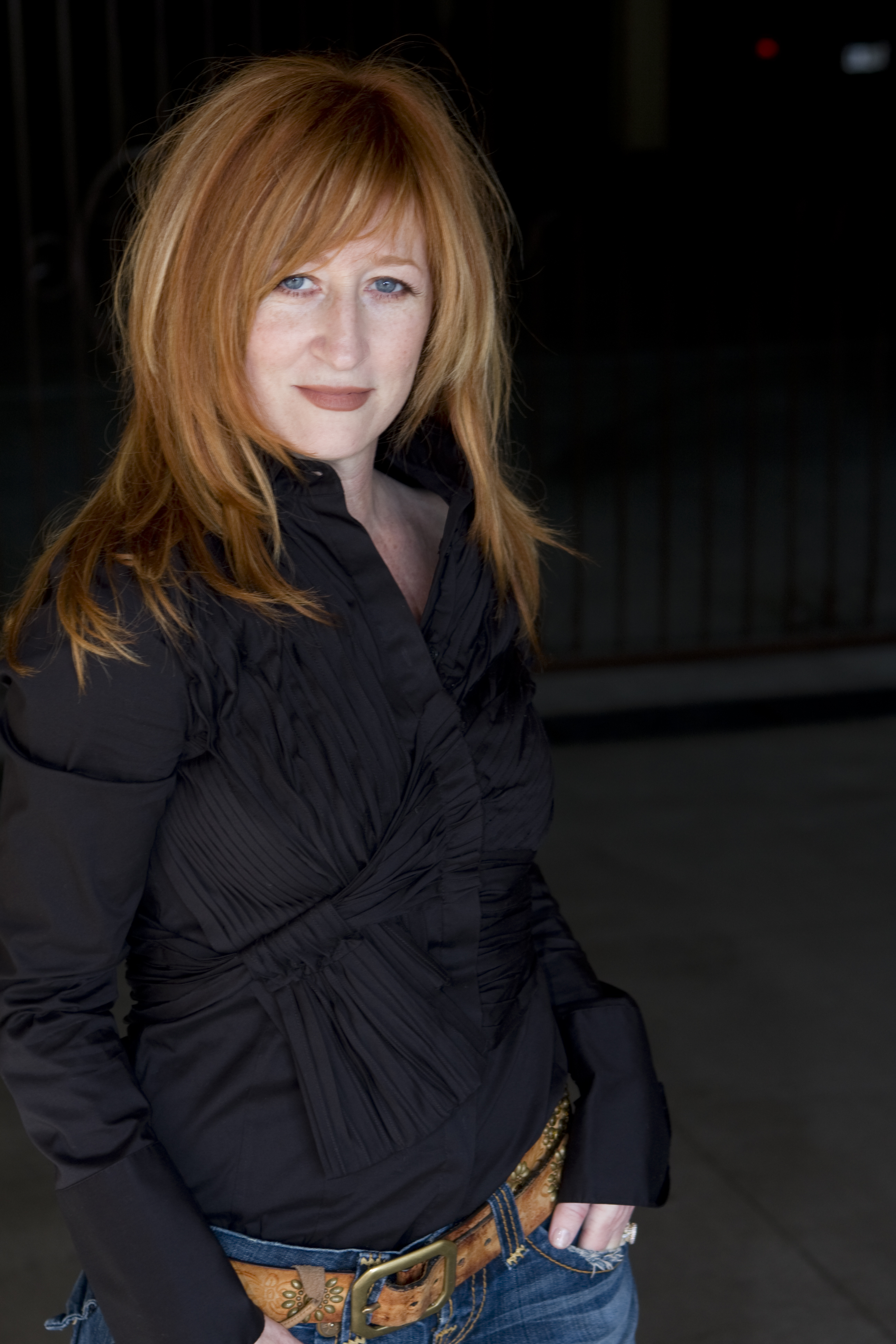 Photography shot